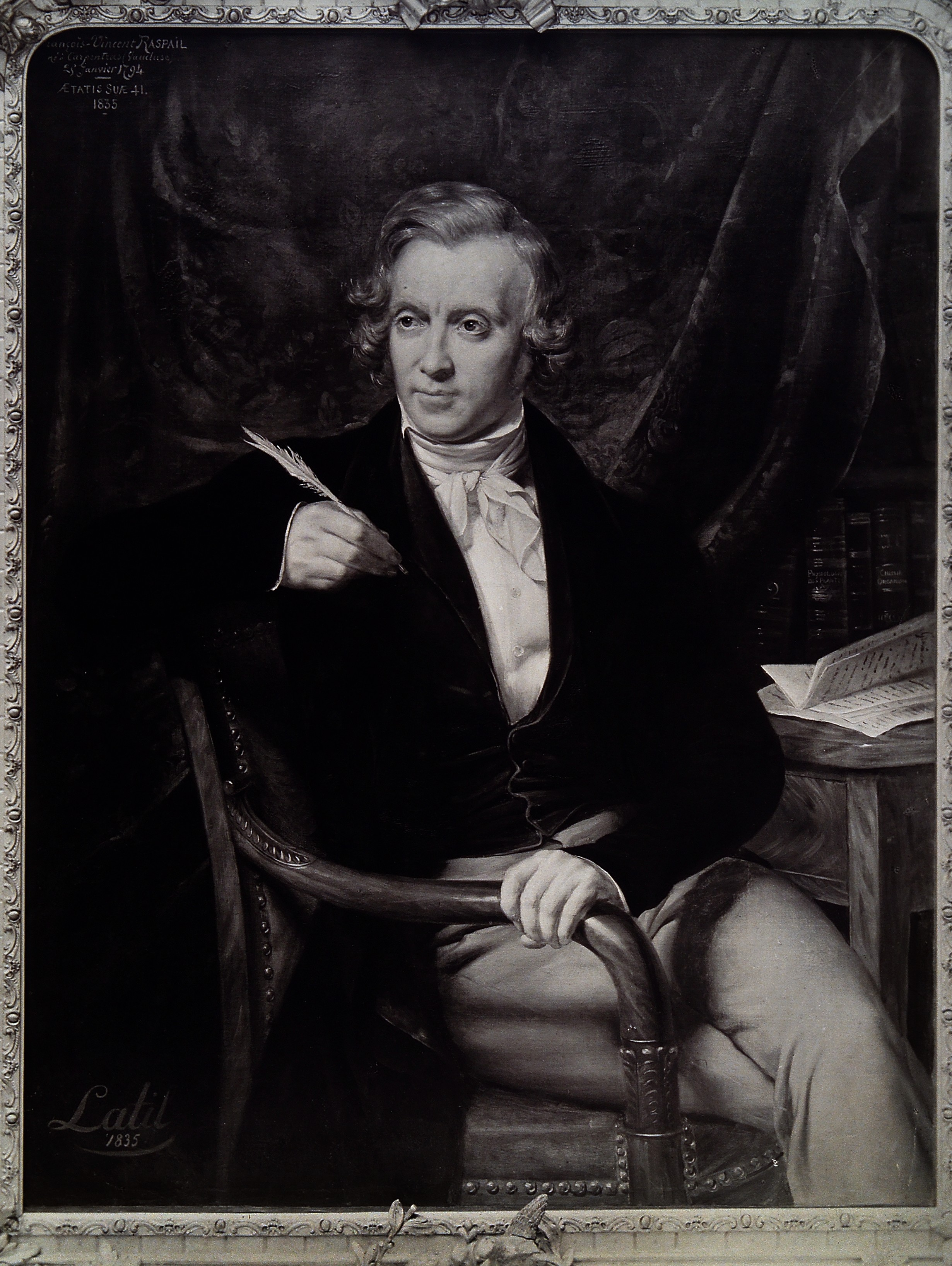 François-Vincent Raspail. Photograph after a painting by Latil, 1835. Iconographic Collections Keywords: portrait photographs